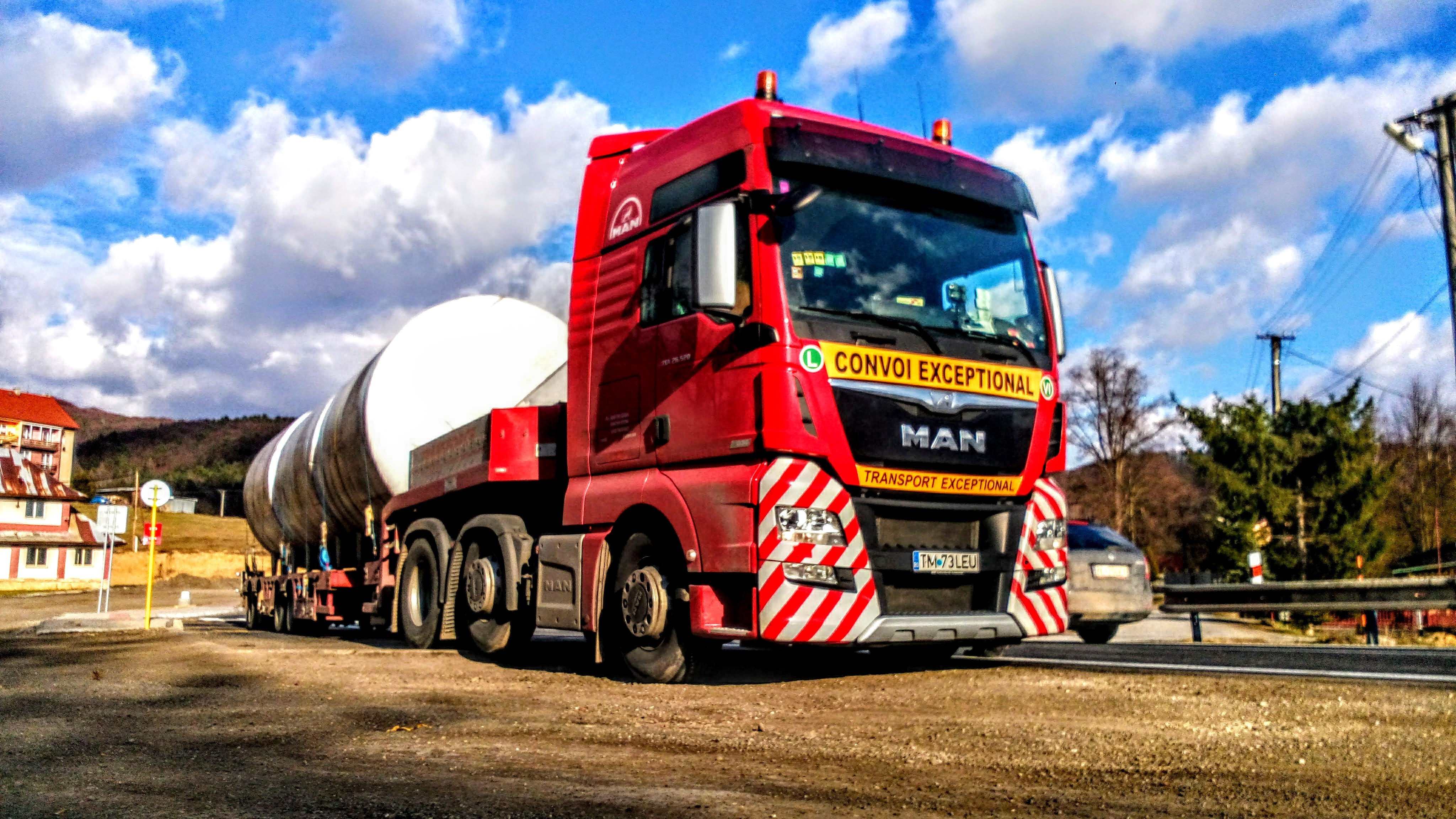 Convoi Transport exceptionnel ➤ MAN TGX ➤ Šarišský Štiavnik